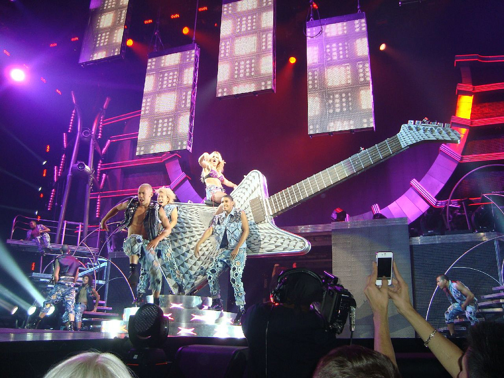 Britney Spears performing "Burning Up" at 2011's Femme Fatale Tour.